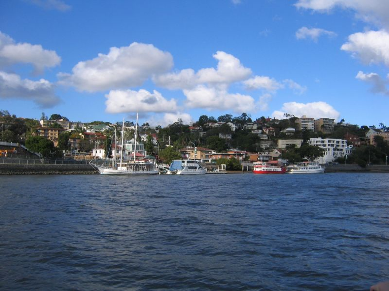 Southern part of Hamilton facing the Brisbane River